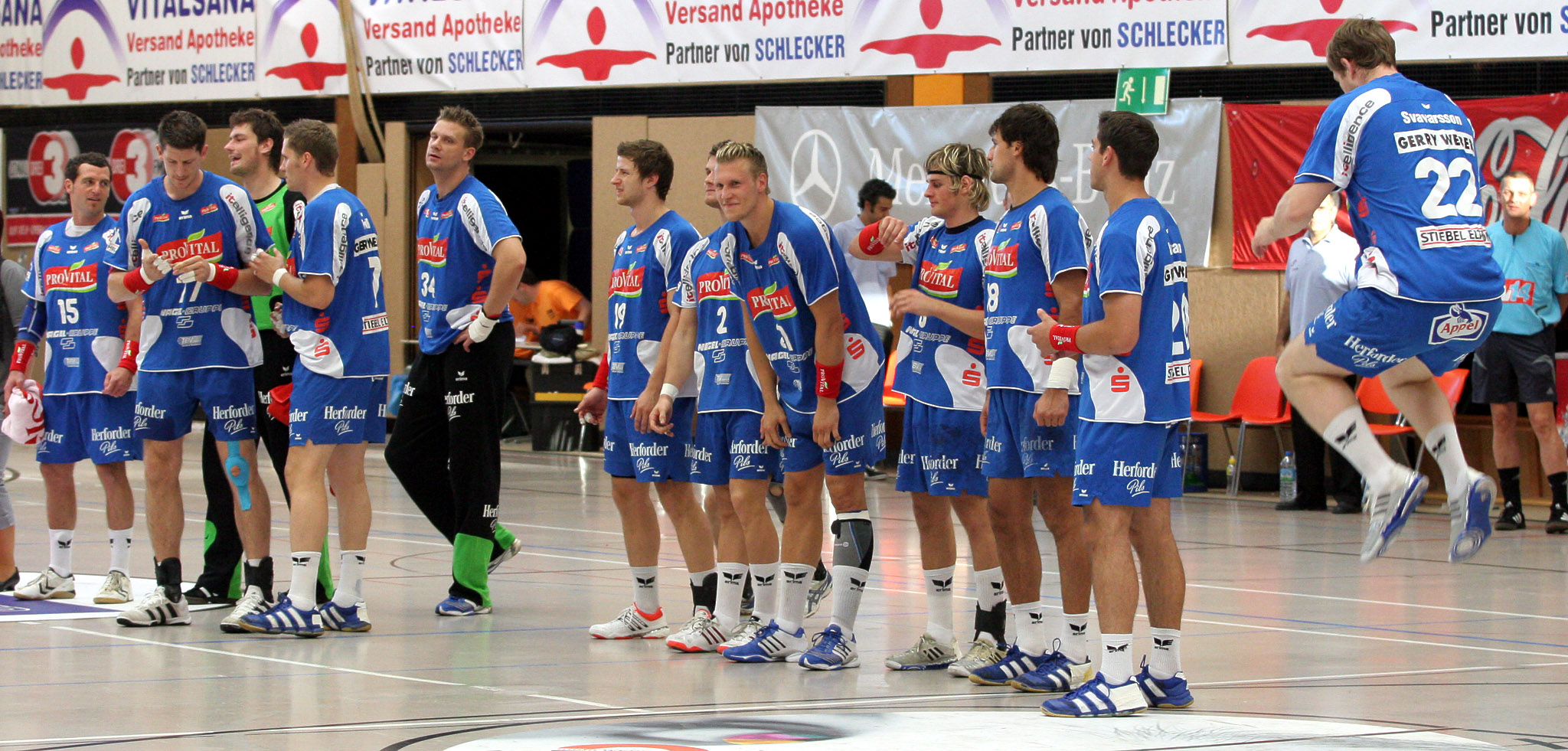 The team from TBV Lemgo, on August 30th, 2008 in Ehingen prior a game for the Schlecker Cup 2008